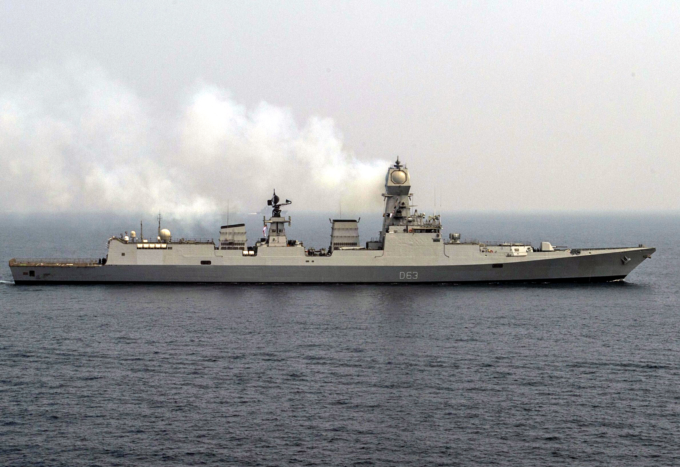 160209-N-ZZ786-022 BAY OF BENGAL (Feb. 9, 2016) The Indian Navy destroyer INS Kolkata (D63) and the British Navy destroyer HMS Defender (D36) steam alongside the Ticonderoga-class guided-missile cruiser USS Antietam (CG 54) during an exercise as part of India’s International Fleet Review (IFR) 2016. IFR 2016 is an international military exercise hosted by the Indian Navy to help enhance mutual trust and confidence with navies from around the world. Antietam, forward deployed to Yokosuka, Japan, is on patrol in the 7th Fleet area of operations in support of security and stability in the Indo-Asia-Pacific. (U.S. Navy photo by Mass Communication Specialist 3rd Class David Flewellyn/Released)